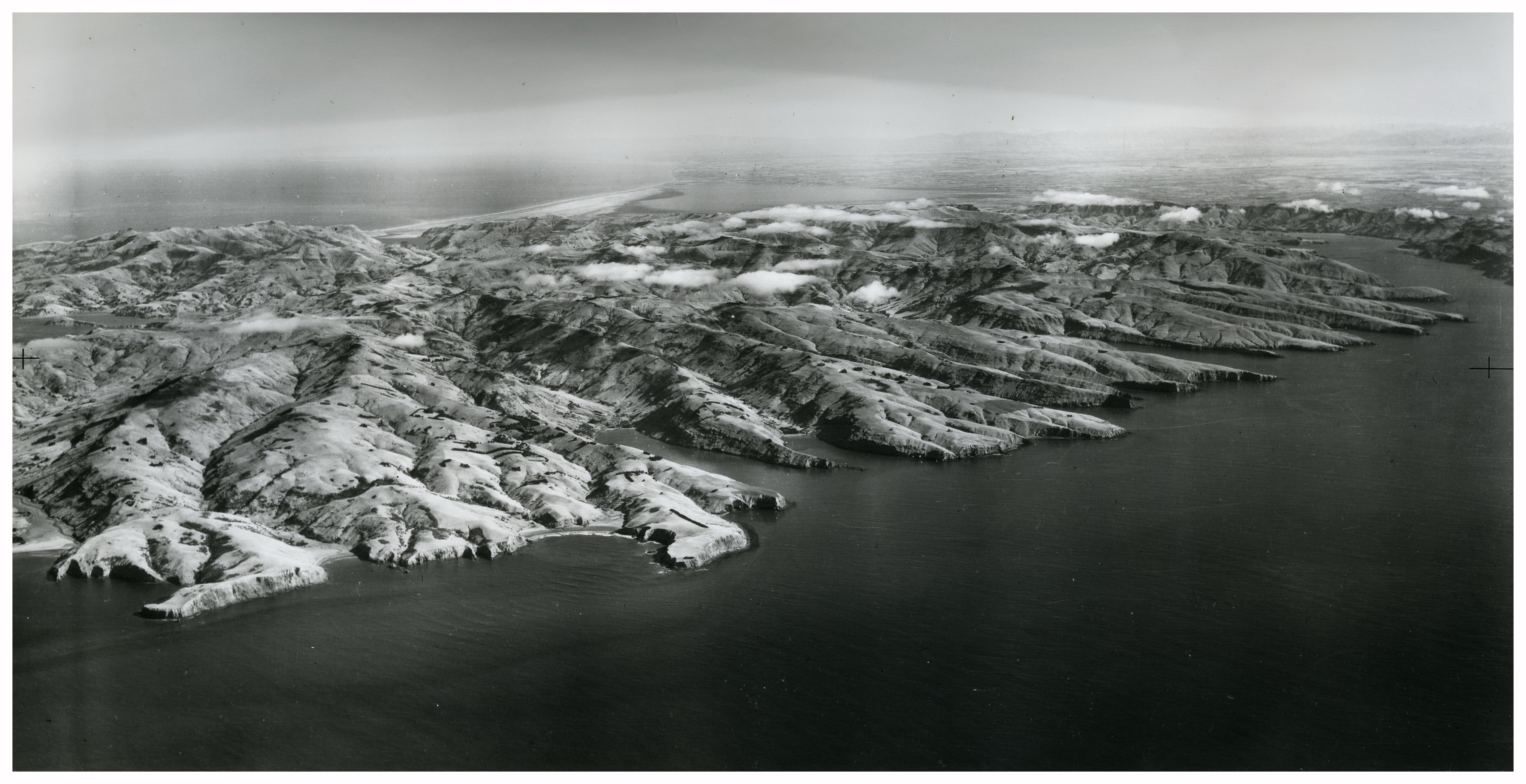 This amazing photograph of Banks Peninsula was used for a School Journal Publication, and comes from a series of Publication folders (photographer unknown). The visible bays are (from right to left): Lyttelton Harbour (featuring Quail Island), the entrances to Port Levy and Pigeon Bay, Whitehead Bay, part of Scrubby Bay and Menzies Bay, Squaliy Bay, Decantor Bay and Little Akaloa (the two Bays in the centre of the picture), Raupo Bay, Stony Beach, and part of Okains Bay (far left). Part of Akaroa Harbour can also be seen. In the background is Kaitorete Spit, Te Waihora (Lake Ellesmere), and the Canterbury Plains. Archives Reference: AAAD 699 Box 23 / i Material from Archives New Zealand